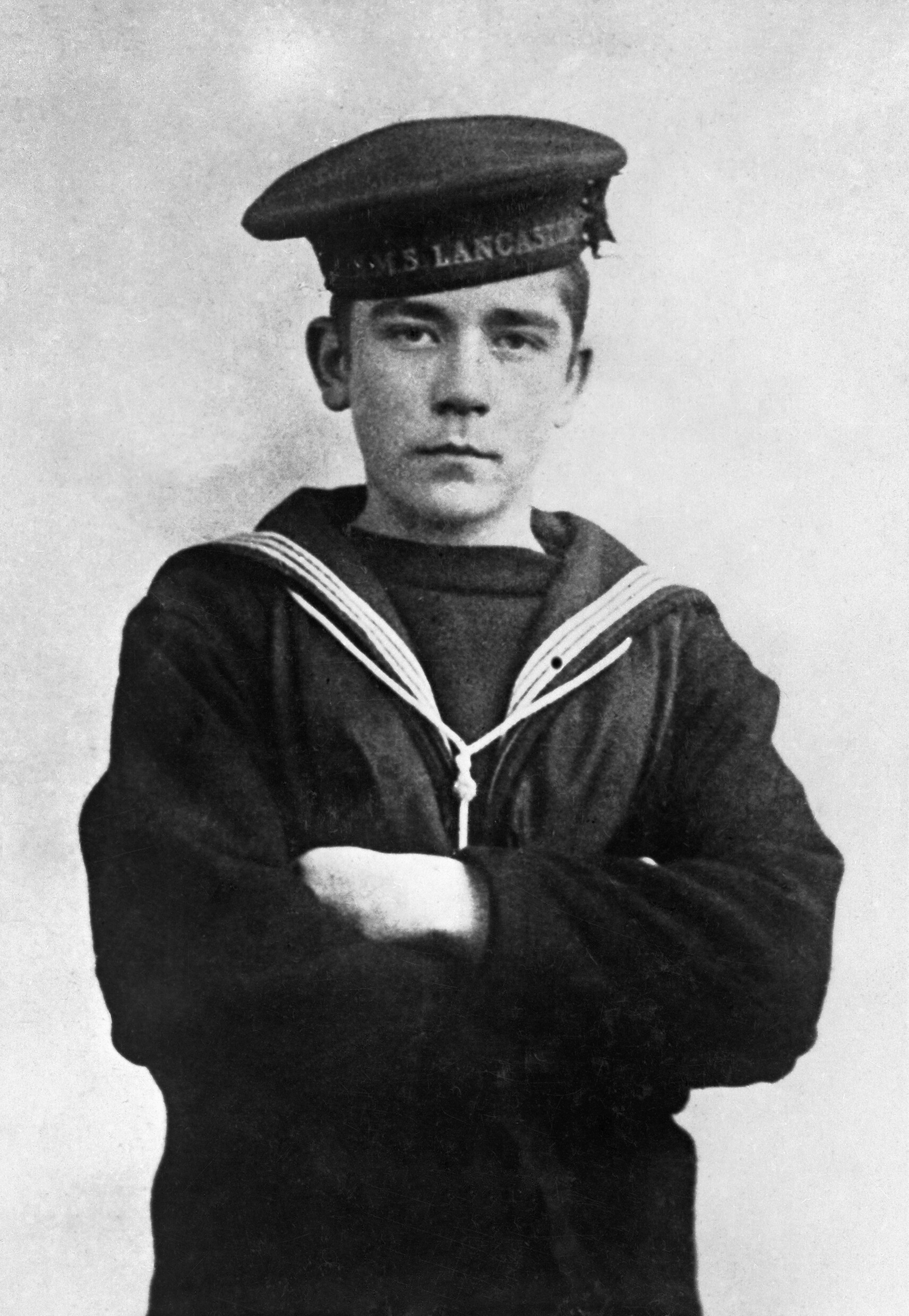 Used to illustrate John Travers Cornwell, the "boy hero" of Jutland aged 16 1/2 years.